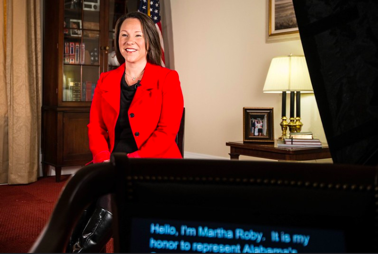 This official House Republican Conference photograph is being made available for publication by news organizations and/or for personal use printing by the subject(s) of the photograph. The photograph may not be manipulated in any way or used in materials, advertisements, products, or promotions, including but not limited to such use that in any way suggest approval or endorsement of the House Republican Conference, the Chairman of the Conference, or any Member of the Conference.